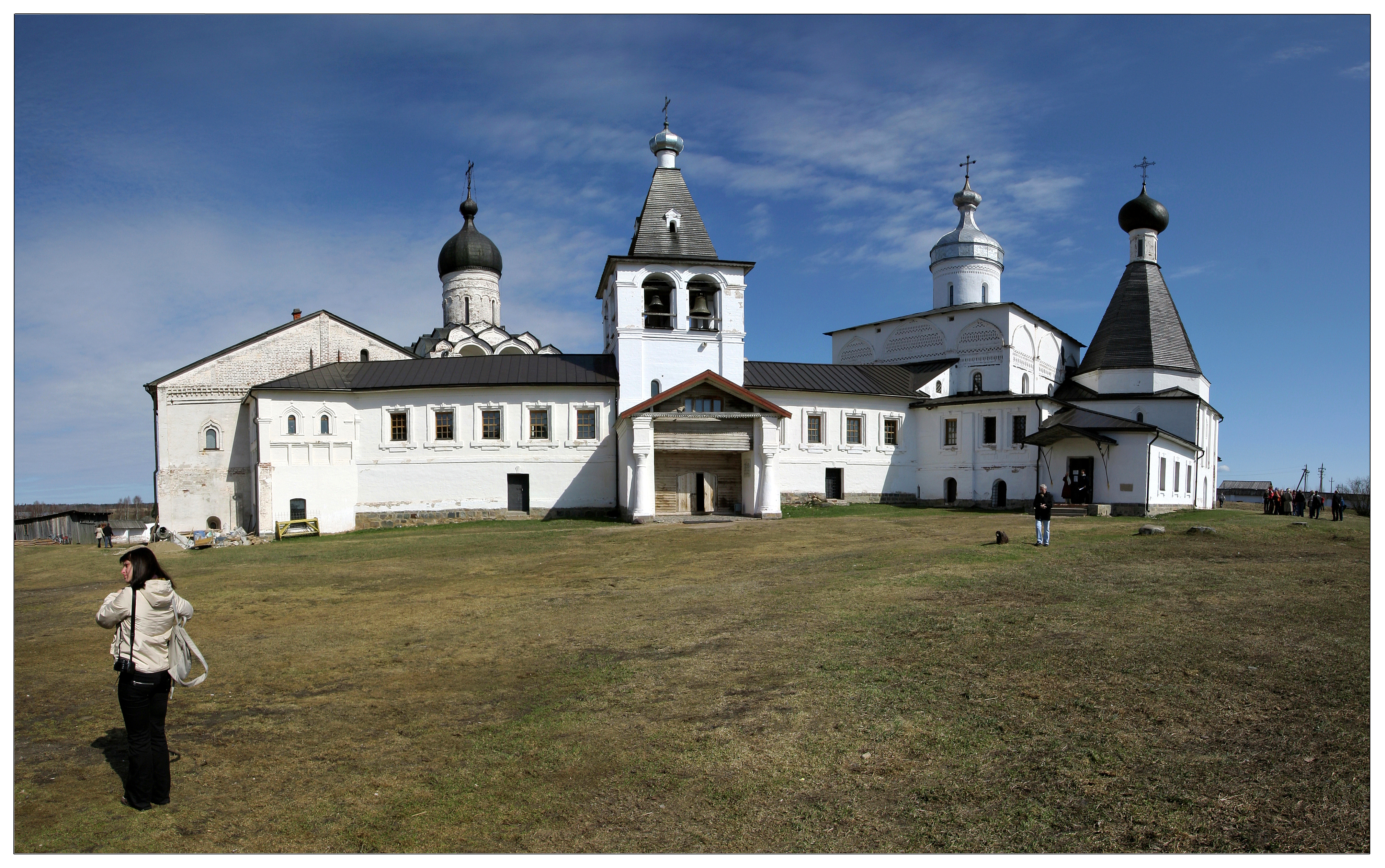 View of Ferapontov Monastery in Russia Ферапонтов монастырь